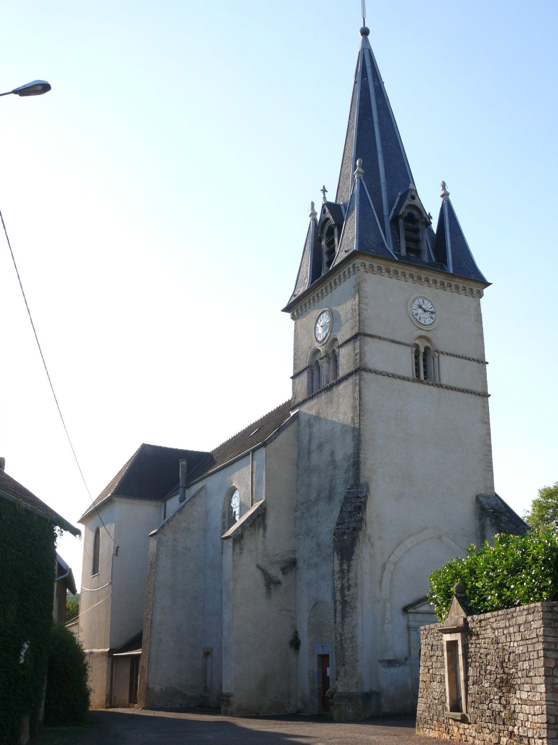 Church of Maizières, in Haute-Saône (France)